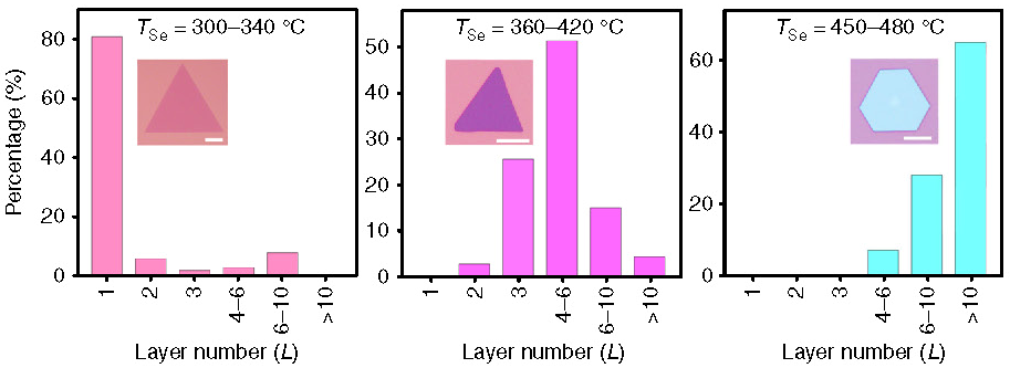 Statistic thickness distributions and representative morphologies (inset) of NbSe2 crystals synthesized with Se temperatures at 300-340, 360-420 and 450-480 °C, respectively. Scale bars from inset left to right are 20, 5 and 5 µm, and the corresponding thicknesses of inset crystals are 1.1, 5.1 and 16.2 nm